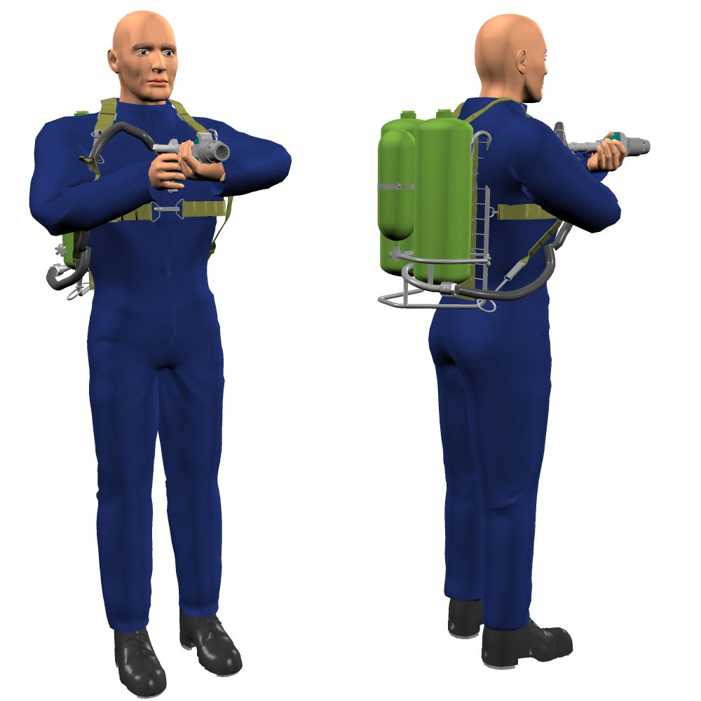 I made this image with computer-generated imagery. 2 views of a man with an M2A1-7 United States Army flamethrower.